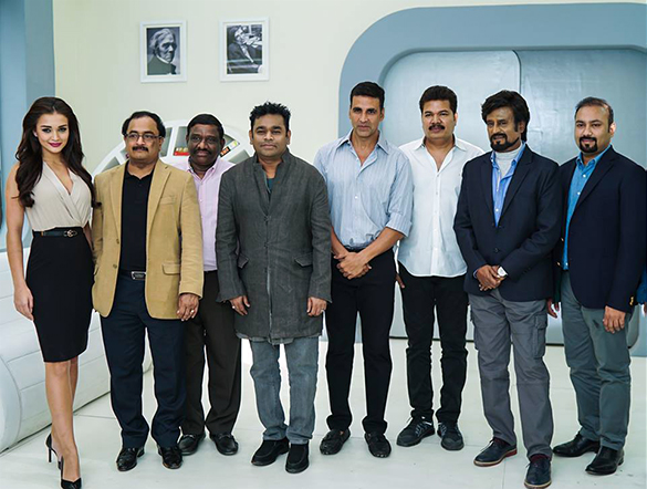 Amy Jackson, A. R. Rahman, Akshay Kumar, S. Shankar and Rajinikanth on the sets of 2.0, the sequel to Enthiran.